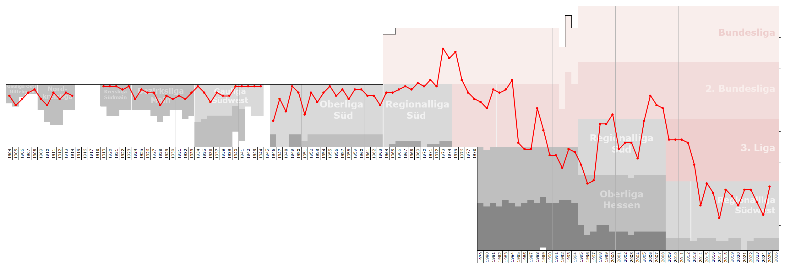 Chart of end-season table positions of Kickers Offenbach in the football league system of Germany. Data source: RSSSF, wikipedia, f-archiv.de, fussball.de